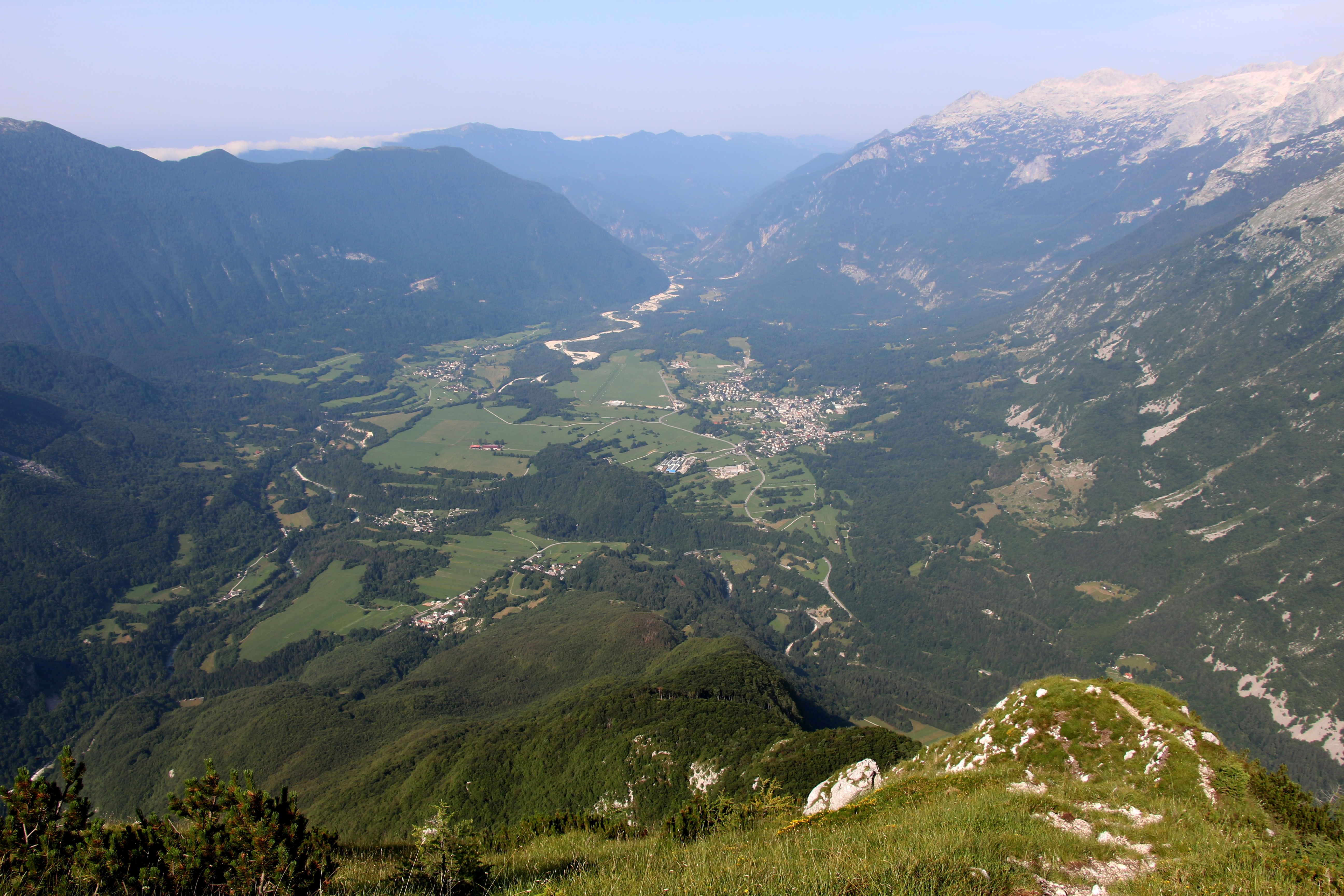 View from the Svinjak peak in Slovenia, looking at the Soča valley.